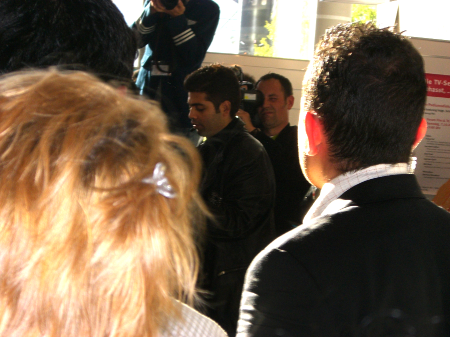 Indian Director Karan Johar at the 2006 Frankfurt Book Fair (Frankfurter Buchmesse)